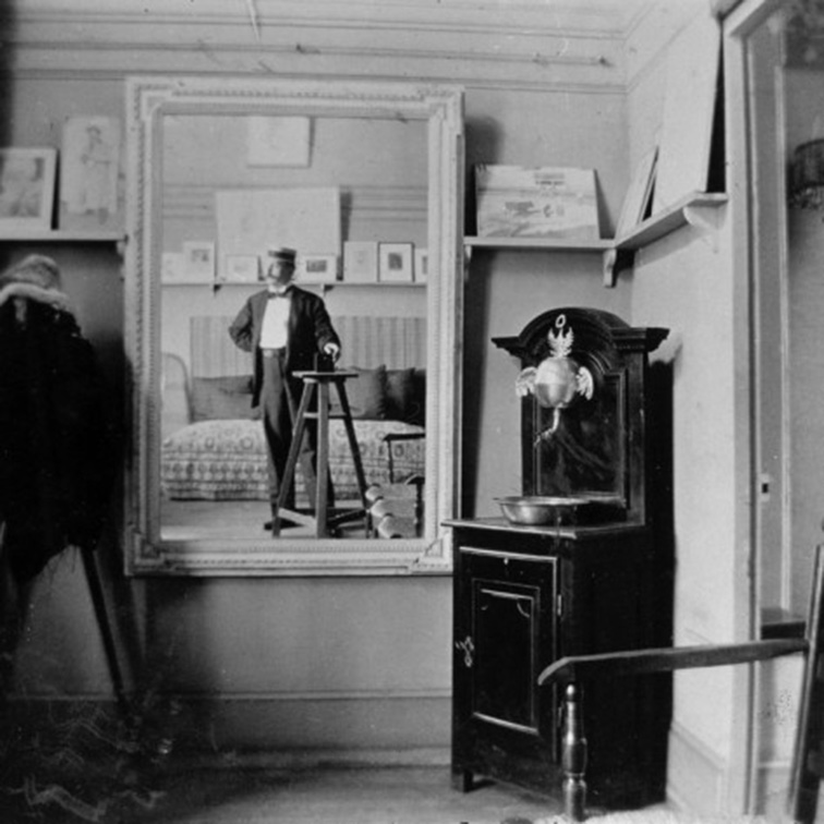 Often incorrectly identified as Lautrec's studio, this self portrait was taken by Dethomas at his home studio at 9 rue Duperre, Montmartre c.1894/1895. Two other images of Lautrec and La Misia Natanson were taken by Dethomas in the same location.